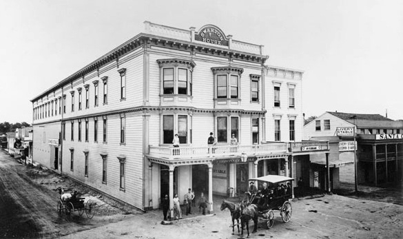 The Swanton House Hotel was built in 1883 and run run by Albion Paris Swanton and his son Fred until it burned down in 1887. It was located in downtown Santa Cruz, California